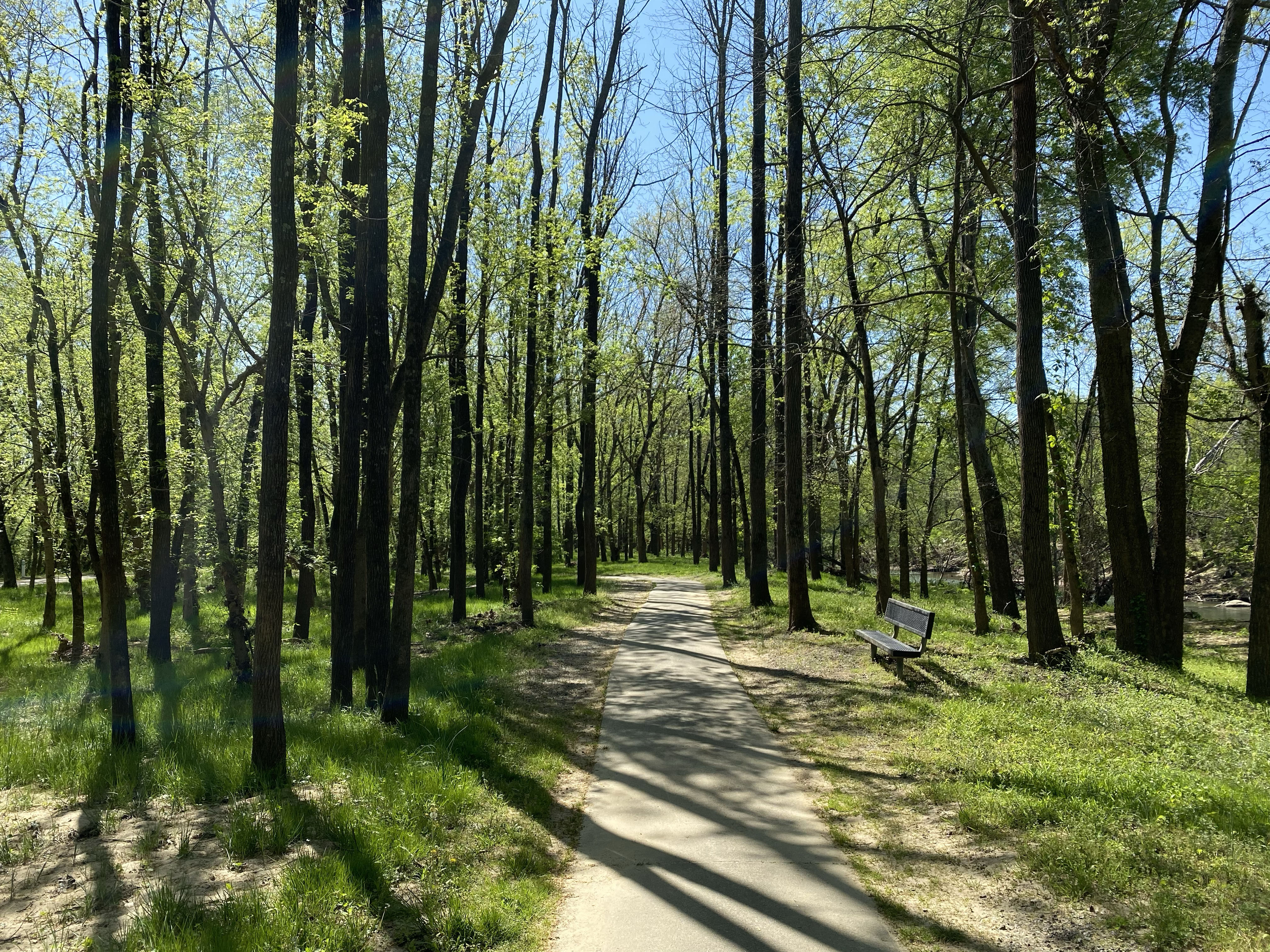 Riverwalk Trail Near Dan Daniel Memorial Park, Danville, VA